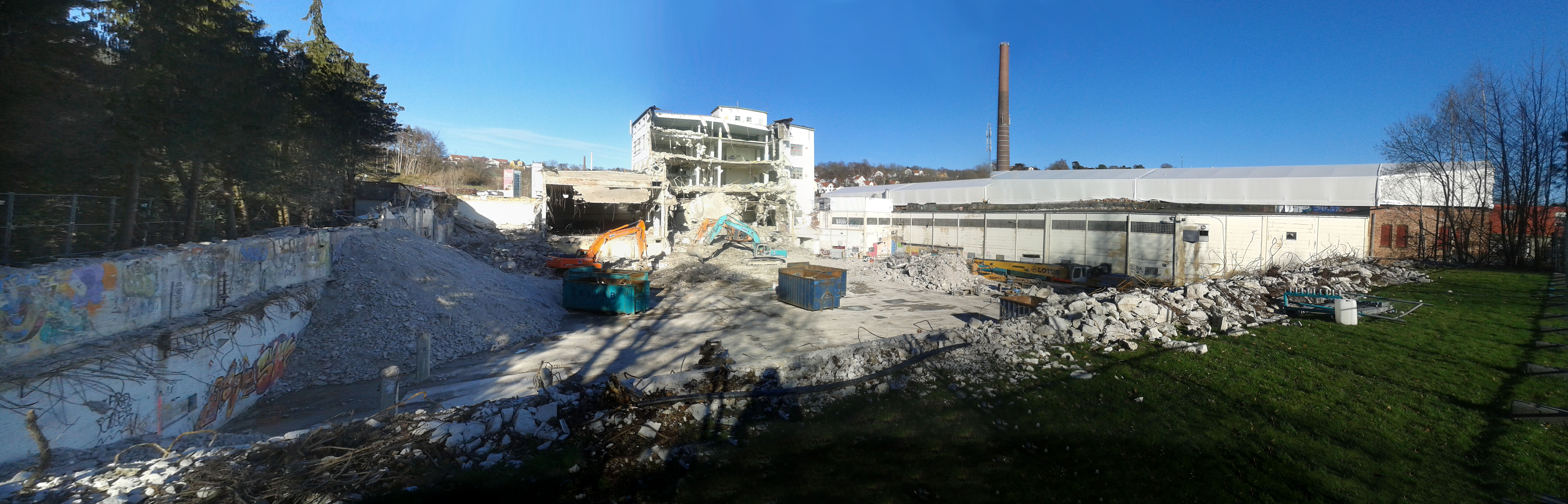 The demolition of the Papyrus area in April 2015